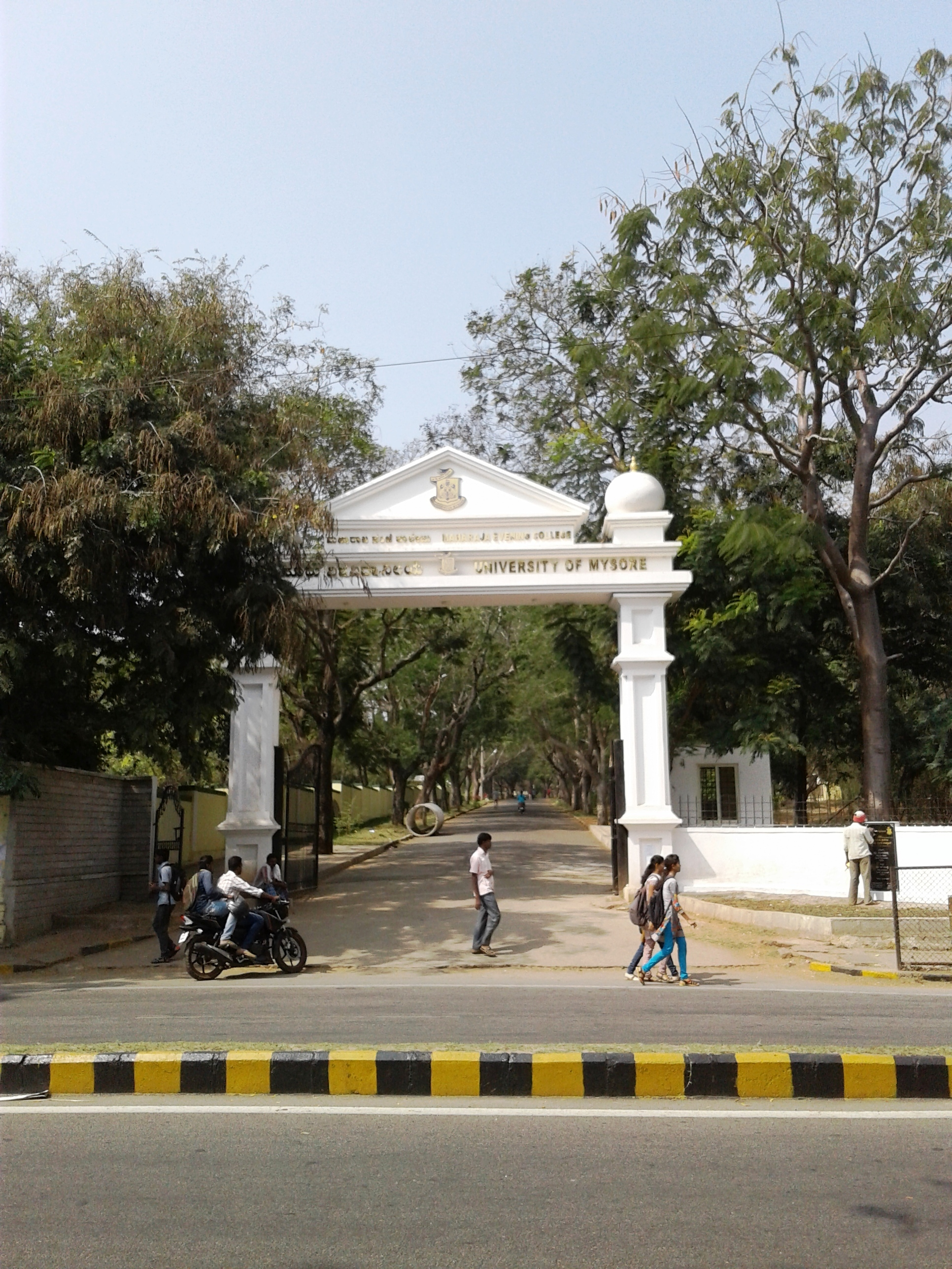 Mysore city, Karnataka state, India.